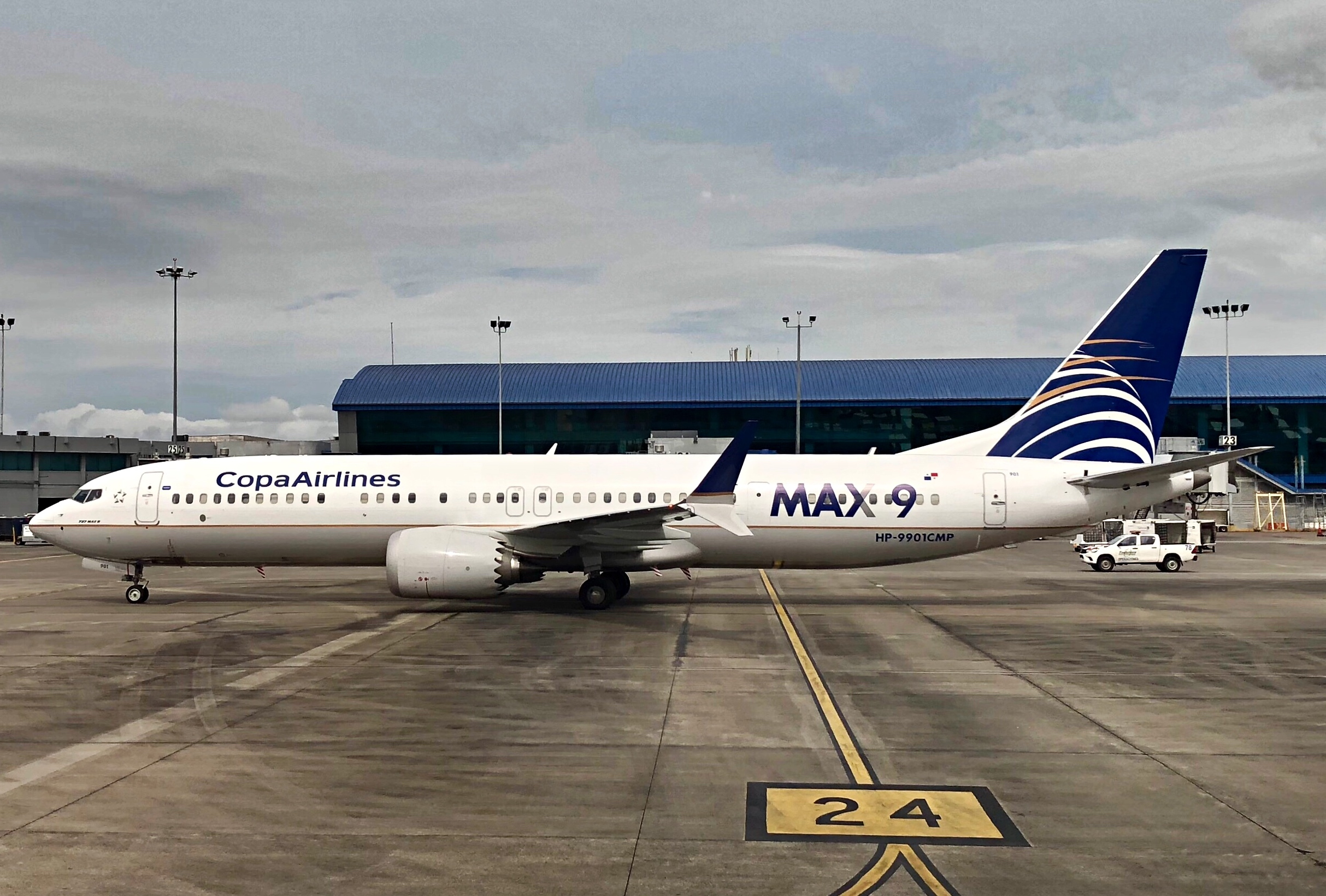 Copa Airlines first 737 Max 9, registration HP-9901CMP, at Panama City Tocumen International airport.